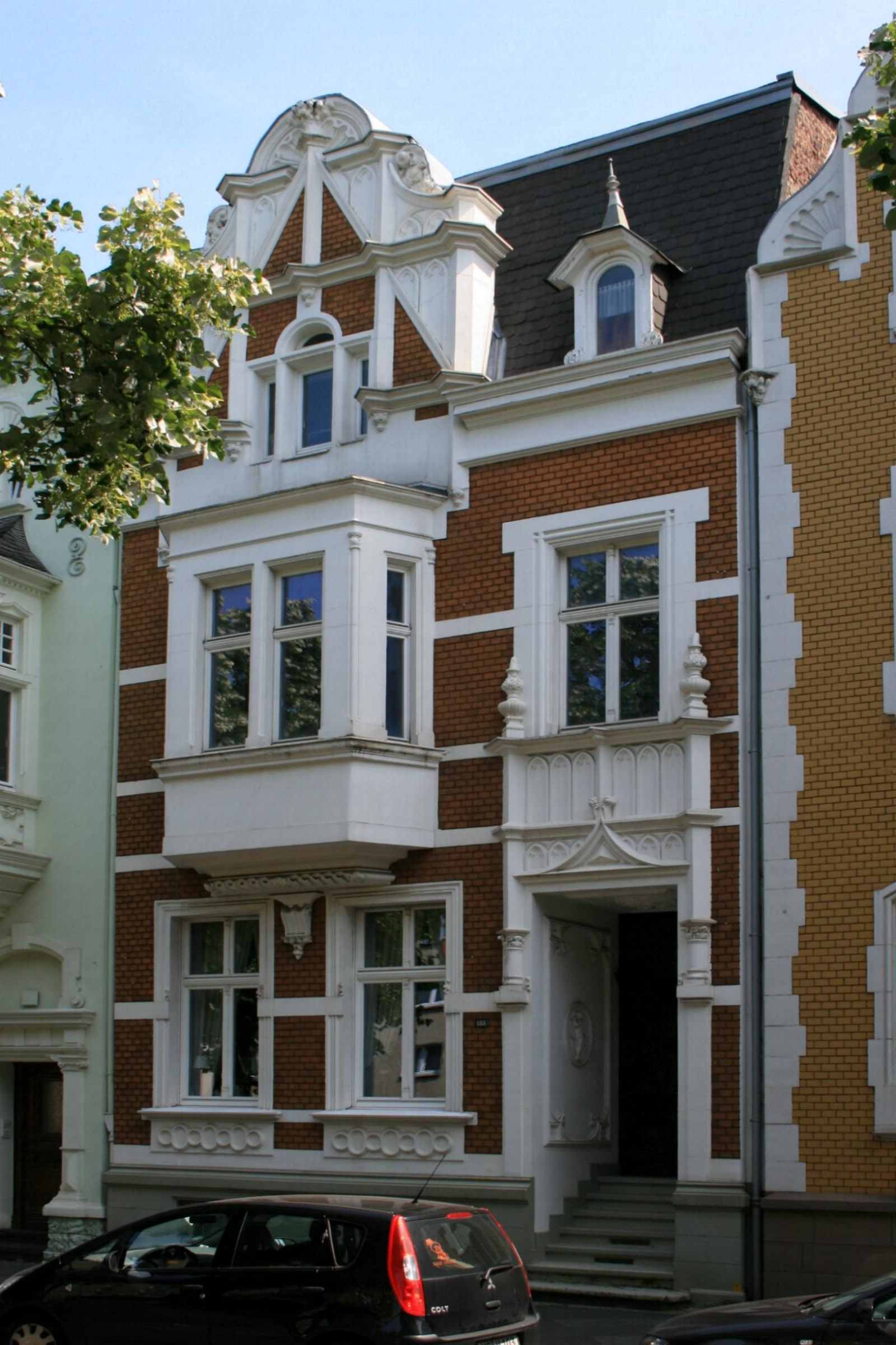 Cultural heritage monument No. B 069 in Mönchengladbach